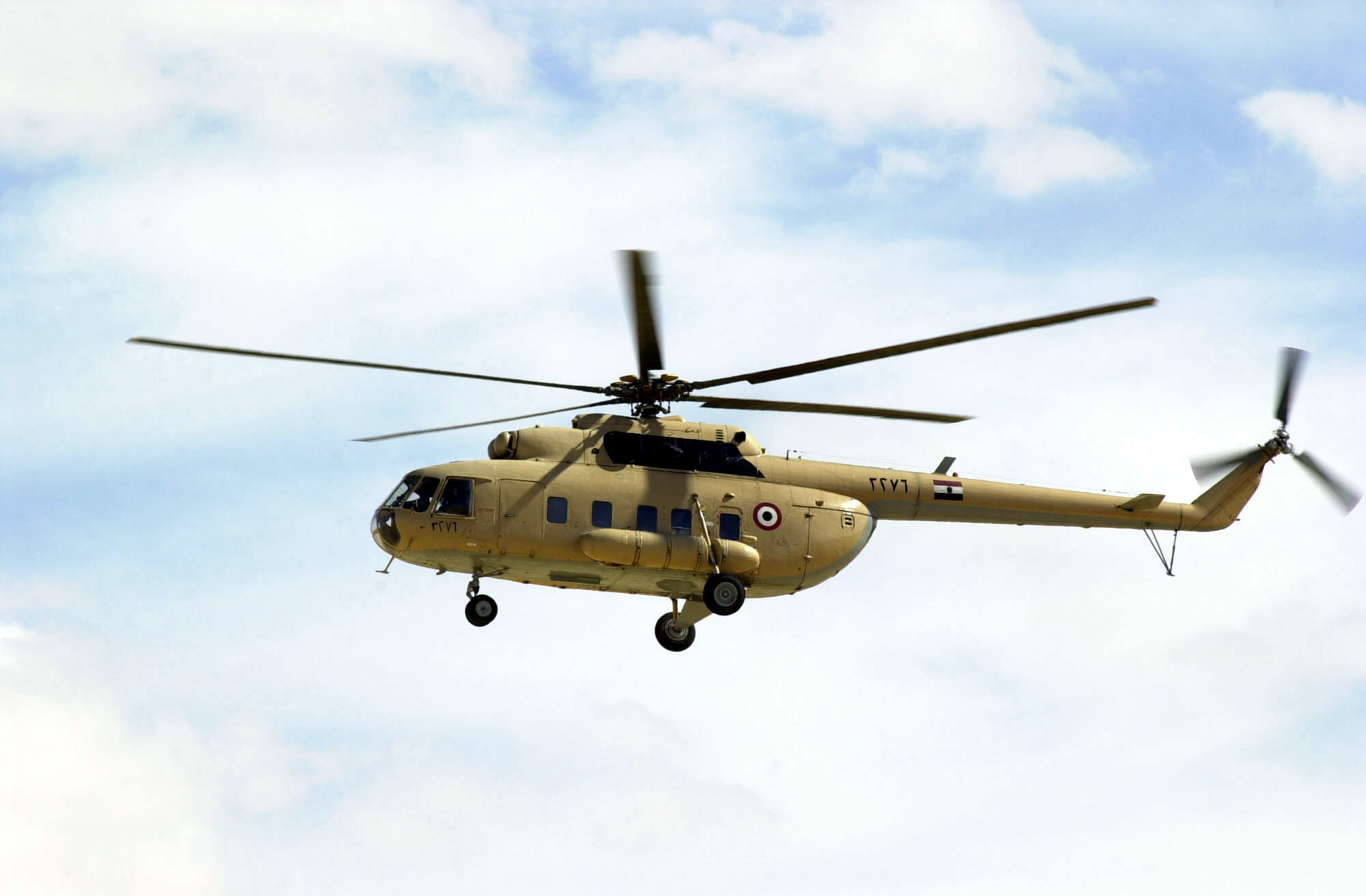 An Egyptian Mil Mi-8 Hip helicopter flies over Range A as the Combined Live fire Exercise (CALFEX) is conducted near Mubarak Military City.